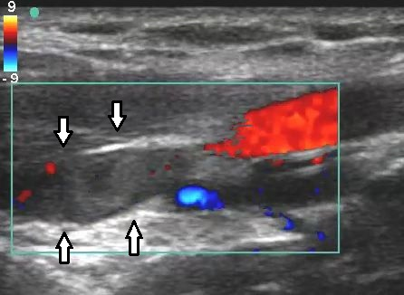 Doppler ultrasound of deep venous thrombosis of the axillary and subclavian vein.